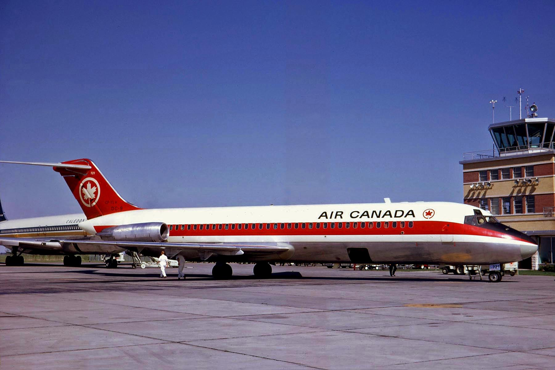 I was on the Caledonian B707 in the background. We were operating flights for Air Canada during a strike. I'd picked the aircraft up in Hannover (HAJ) and we ferried into Saskatoon (YXE) empty for a crew minimum rest. I was there to handle the check-in, however the Air Canada check-in staff were back at work and all I needed to do was the loadsheet before we left for Winnipeg (YWG - fuel stop) and Glasgow - Prestwick (PIK).